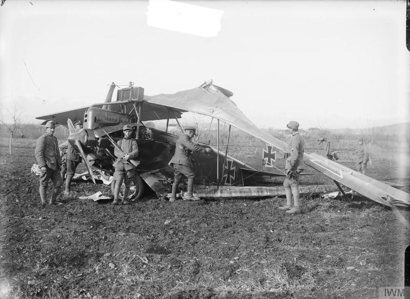 Italian and British (41st Division) troops examining a destroyed DFW two-seat biplane, which fell after a raid on Istrana aerodrome, 26 December 1917.